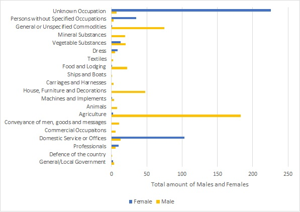 A graph showing Occupations in Sundridge with Ide Hill in 1881.